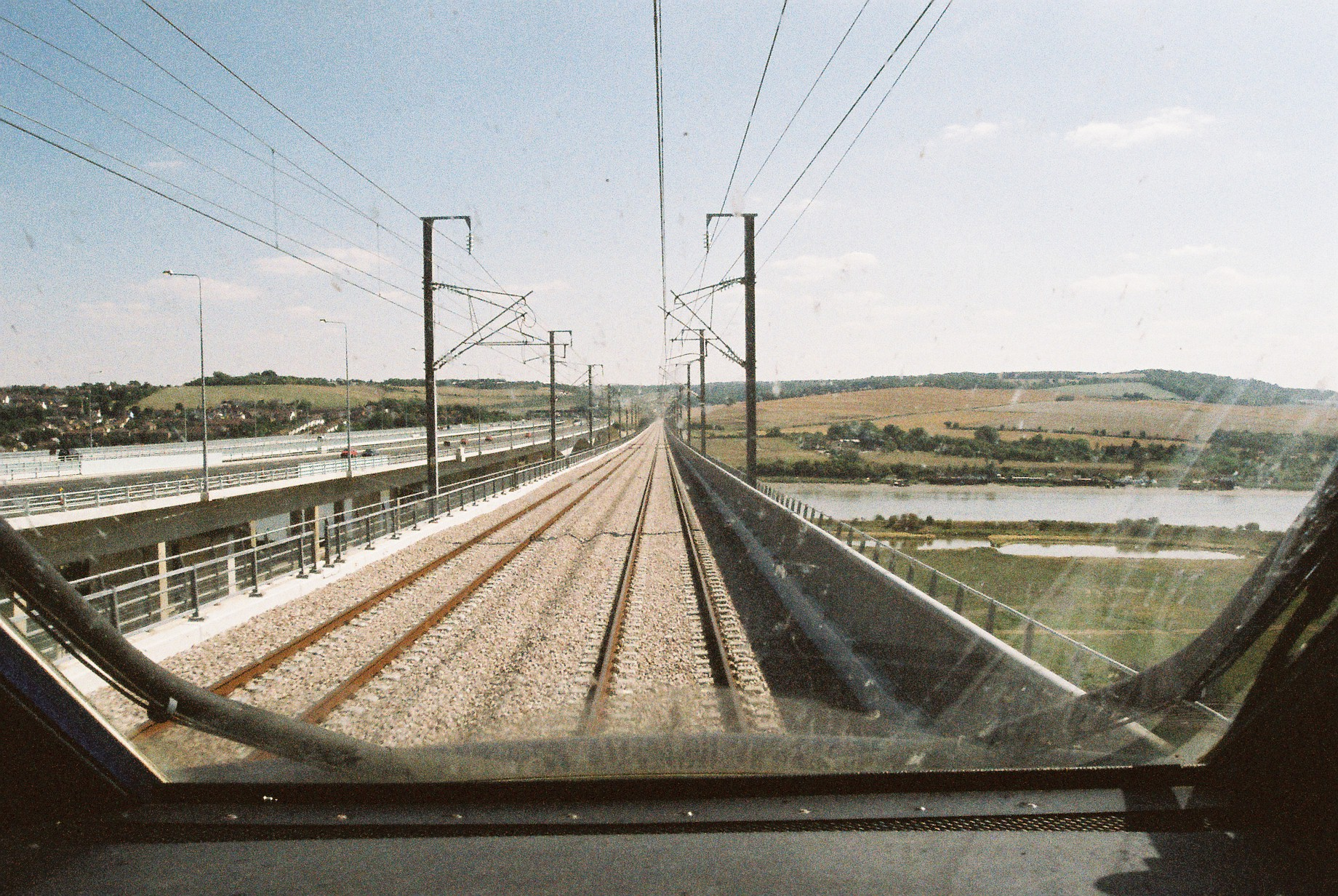 Speeding across Medway Viaduct in Kent